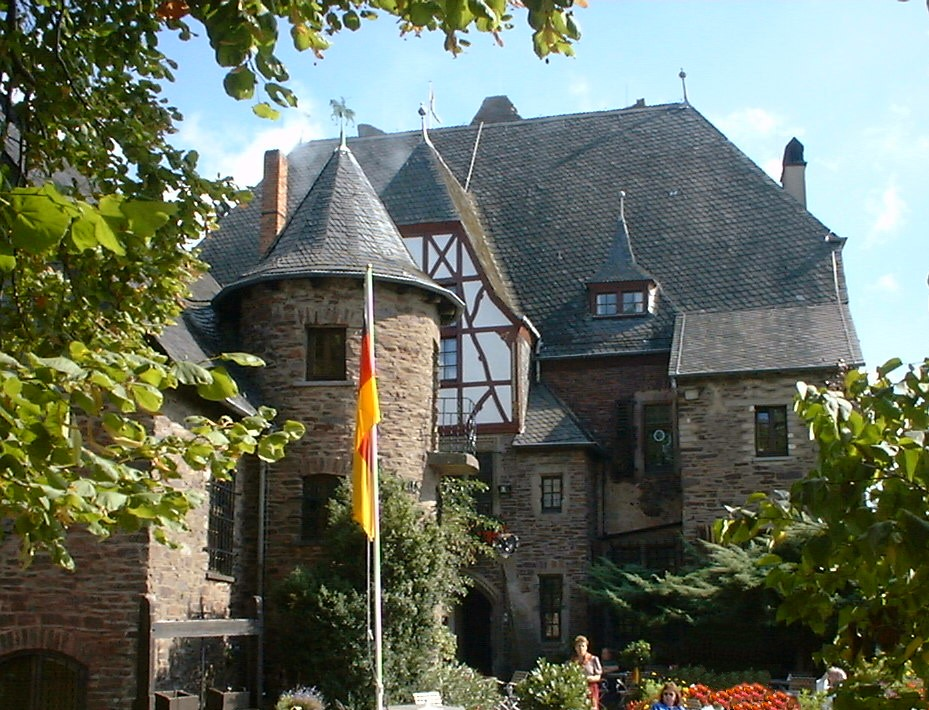 Burg Arras, exterior view